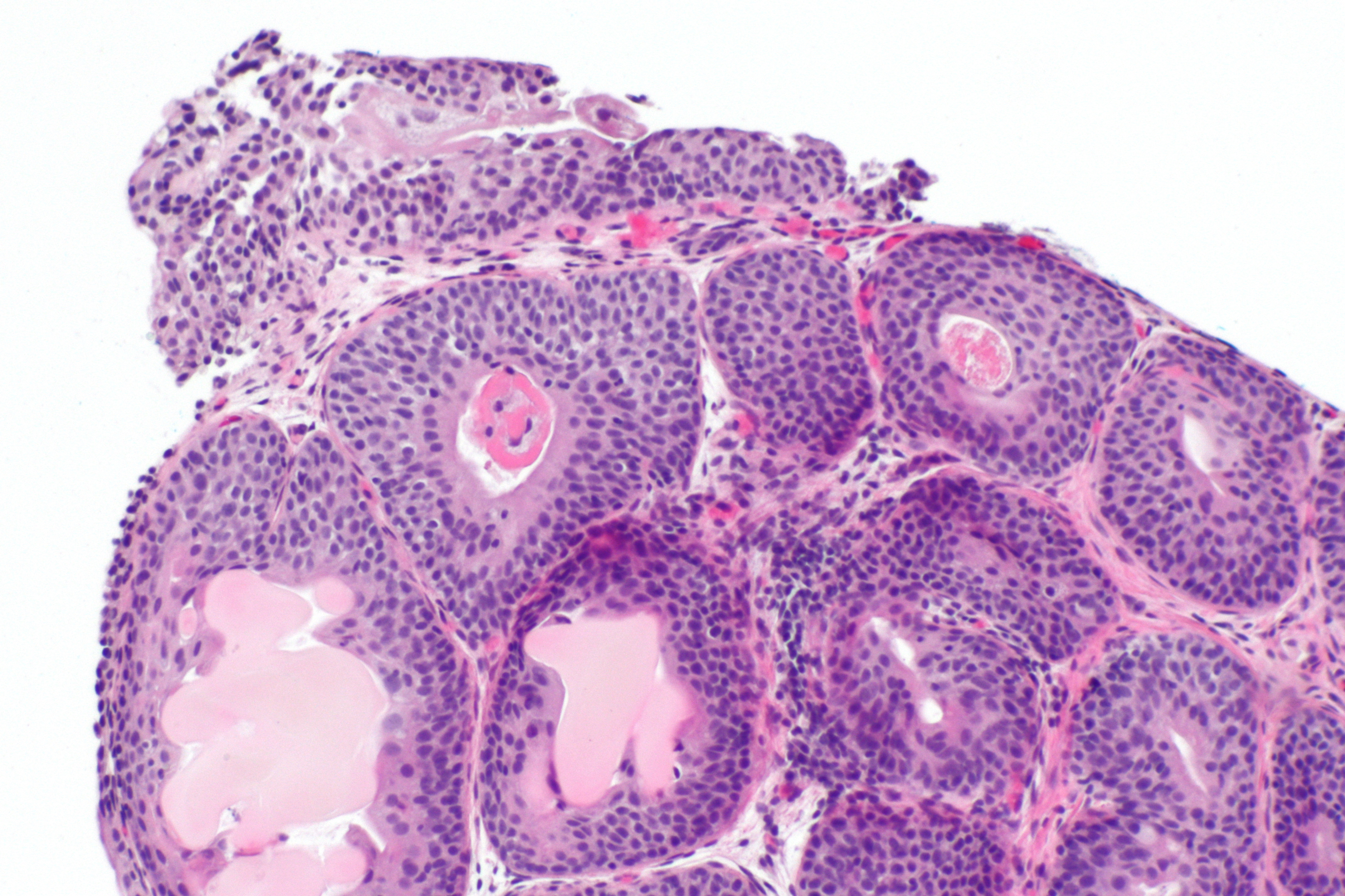 Micrograph showing cystitis cystica. H&E stain. Biopsy. Related images CC - low mag. CC - intermed. mag. CC - intermed. mag. CC - high mag. CC - intermed. mag. CC - high mag.